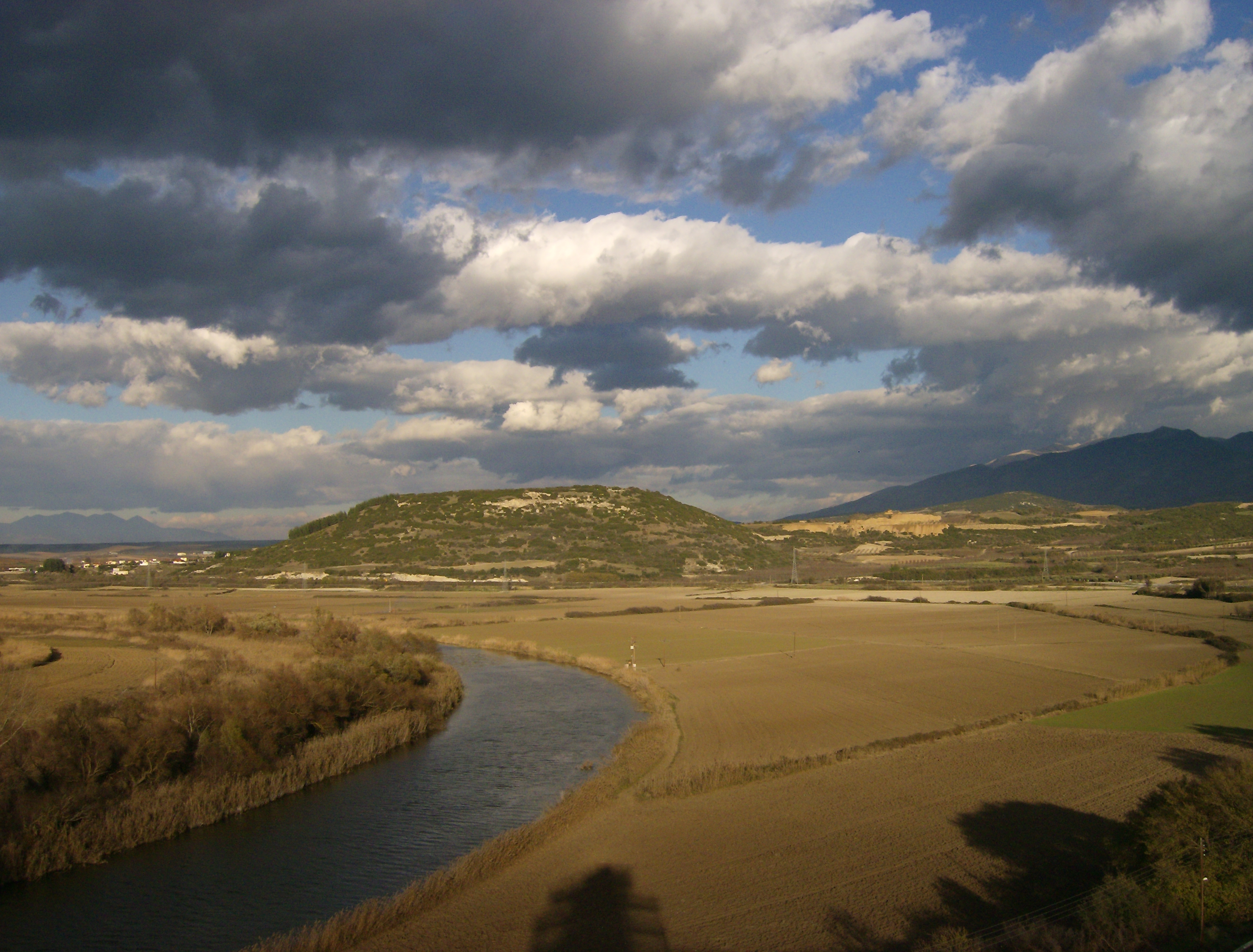 This is a photography of Natura 2000 protected area with ID GR1260002